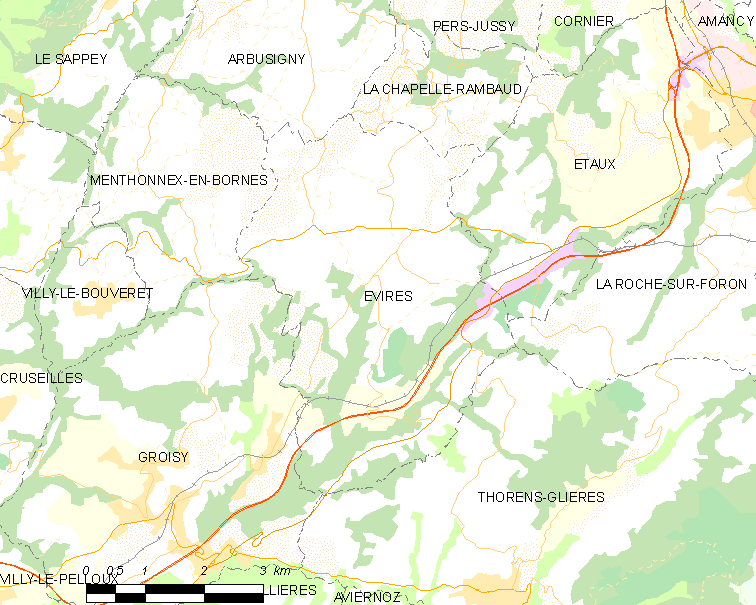 Map of French municipality Évires